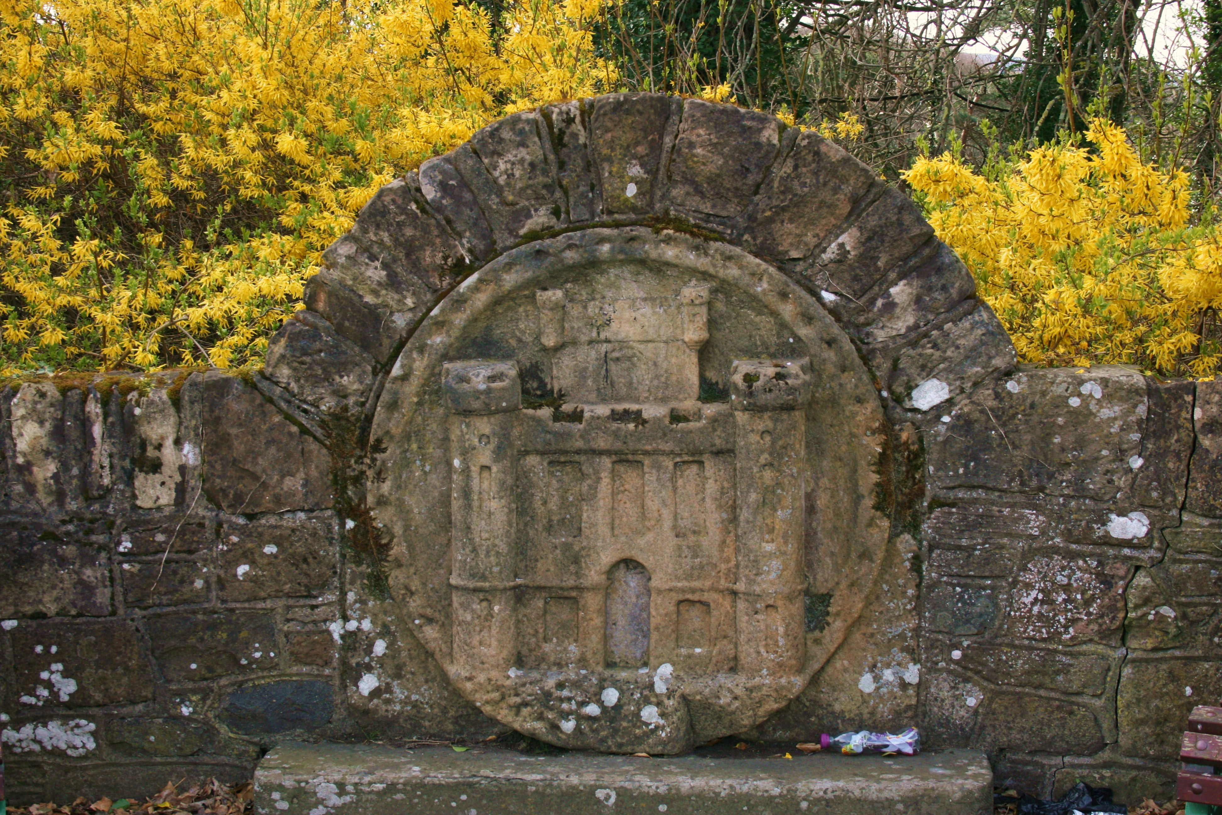 Ayr Coat of Arms as depicted on the Old Brig